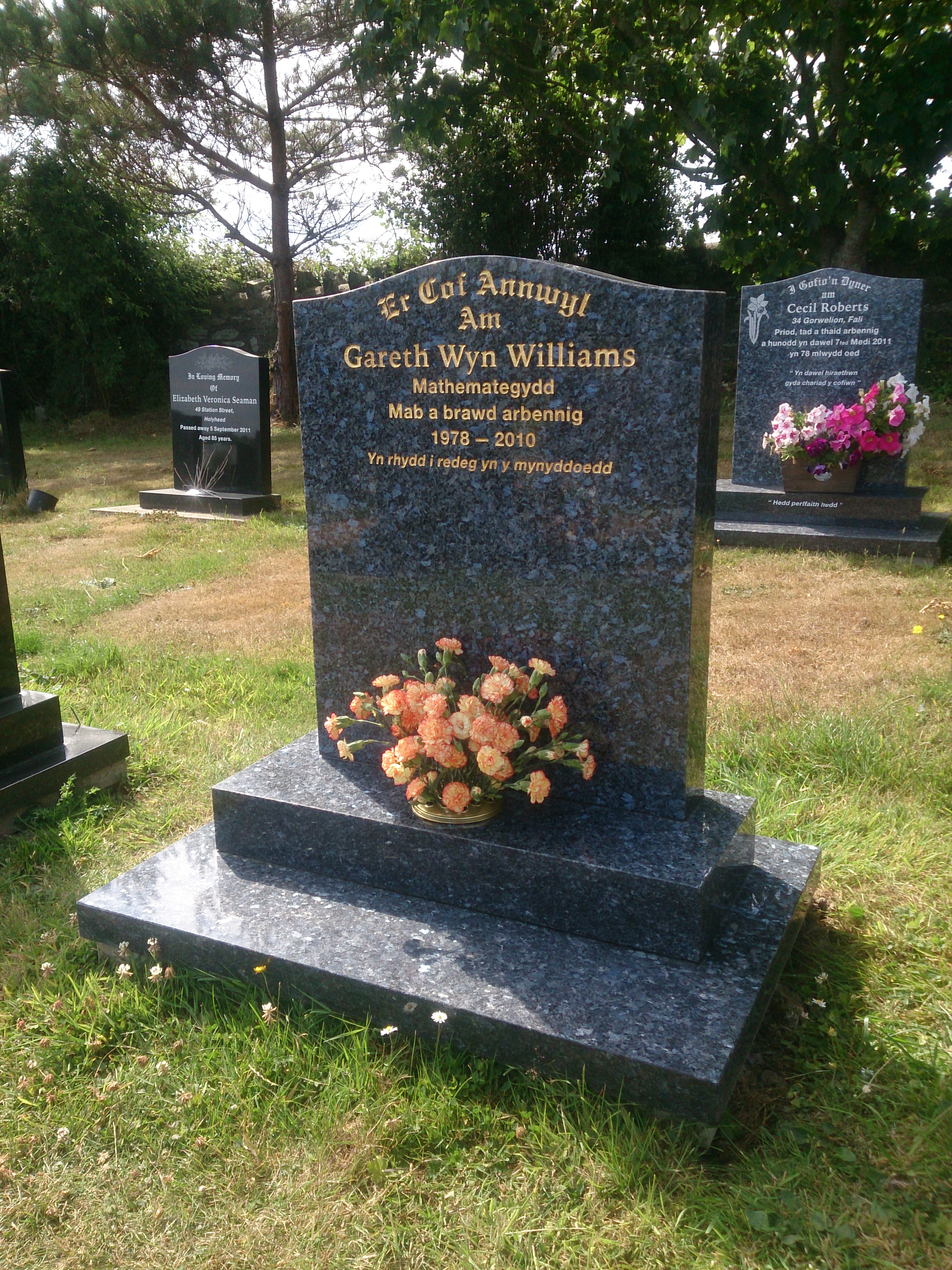 The Grave of Gareth Wyn Williams (1978 - 2010) in Ynys Wen Cemetery, Valley, Anglesey. He was a Welsh mathematician and employee of GCHQ, seconded to the Secret Intelligence Service (SIS or MI6) who was found dead in suspicious circumstances at a Security Service safe house flat in Pimlico, London on 23 August 2010. You are free to use this photo in any way that you choose under the terms of the Creative Commons license. However, if you do publish this photo (e.g. on a website) then please credit me with the following wording underneath it:- "Photo by Tom Oates, 2018". Note that this photograph has embedded metadata which includes GPS co-ordinates for the cemetery. Translated from Welsh, the inscription on the headstone reads:- In loving memory of Gareth Wyn Williams Mathematician Son and a special brother 1978 - 2010 Free to run in the mountains